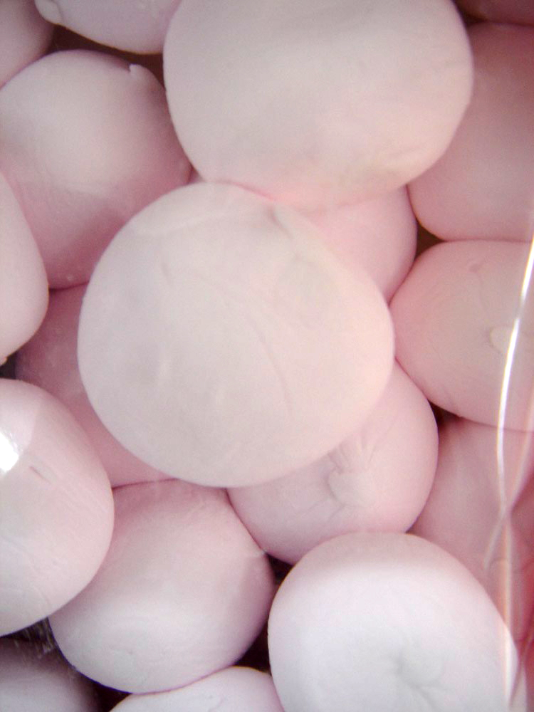 Pink MarshmallowsPink Marshmallows